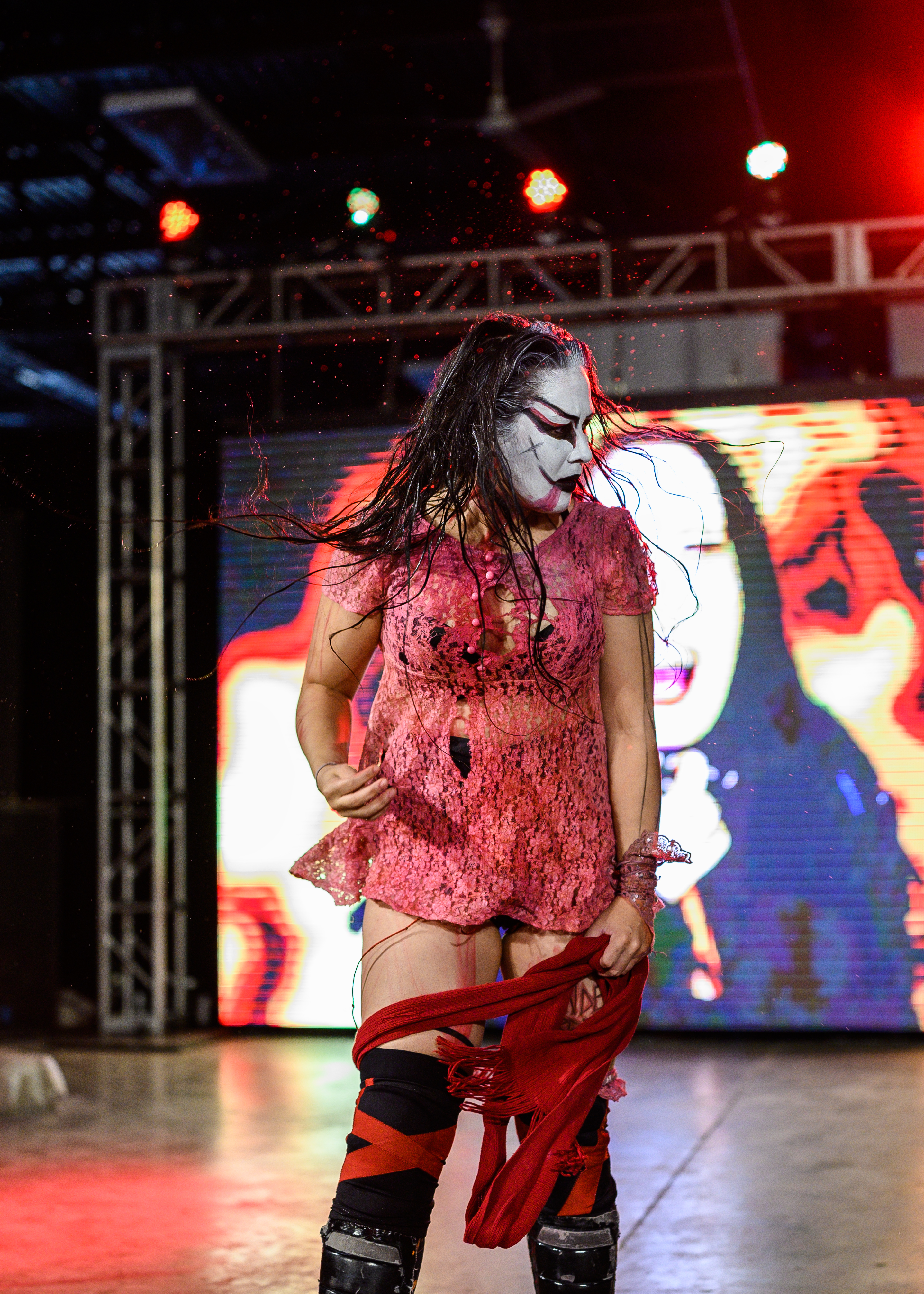 pro wrestler Su Yung